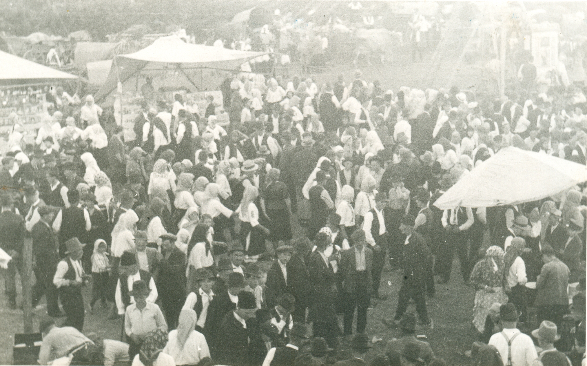 Trade-fair in Negotin 1940. Srpski (latinica): Vašar u Negotinu 1940.